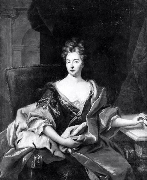 Portrait of Princess Eleonore Erdmuthe of Saxe-Eisenach (1662-1696), Margravine of Brandenburg-Ansbach